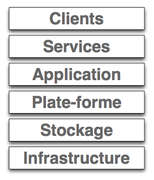 Cloud computing builing blocks